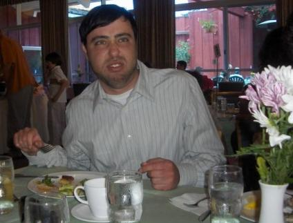 A Californian man expressing disgust.